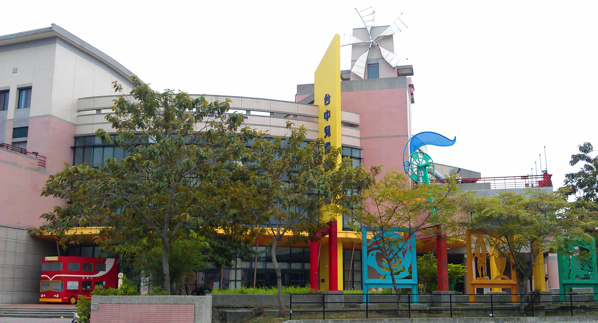 Taichung English and Art Museum中文（台灣）: 台中兒童藝術館